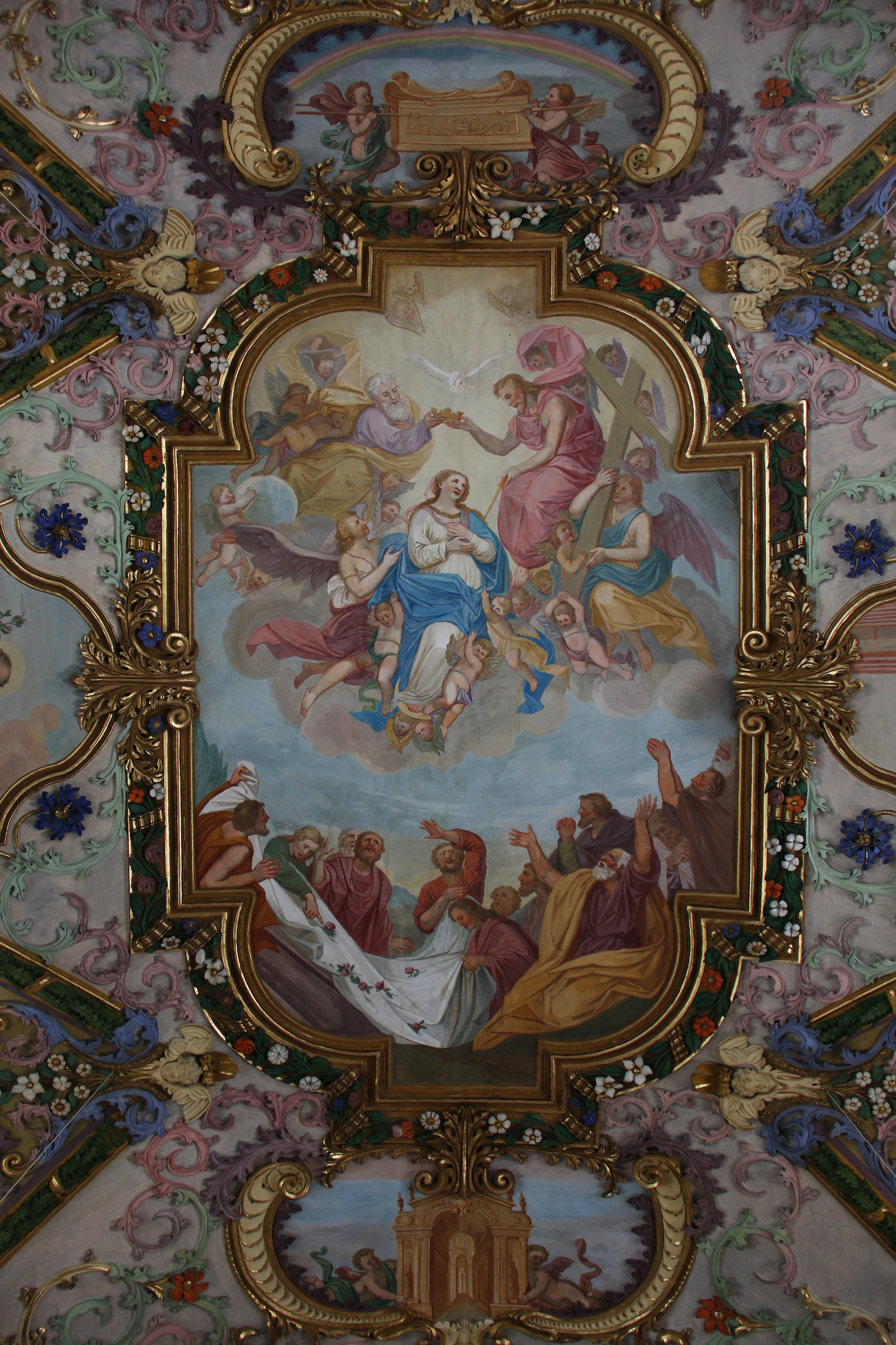 Pilgrimage Church of Mariä Himmelfahrt Native nameWallfahrtskirche Mariä HimmelfahrtLocationAllersdorf, Lower Bavaria, GermanyCoordinates48° 48′ 09″ N, 11° 50′ 59″ E